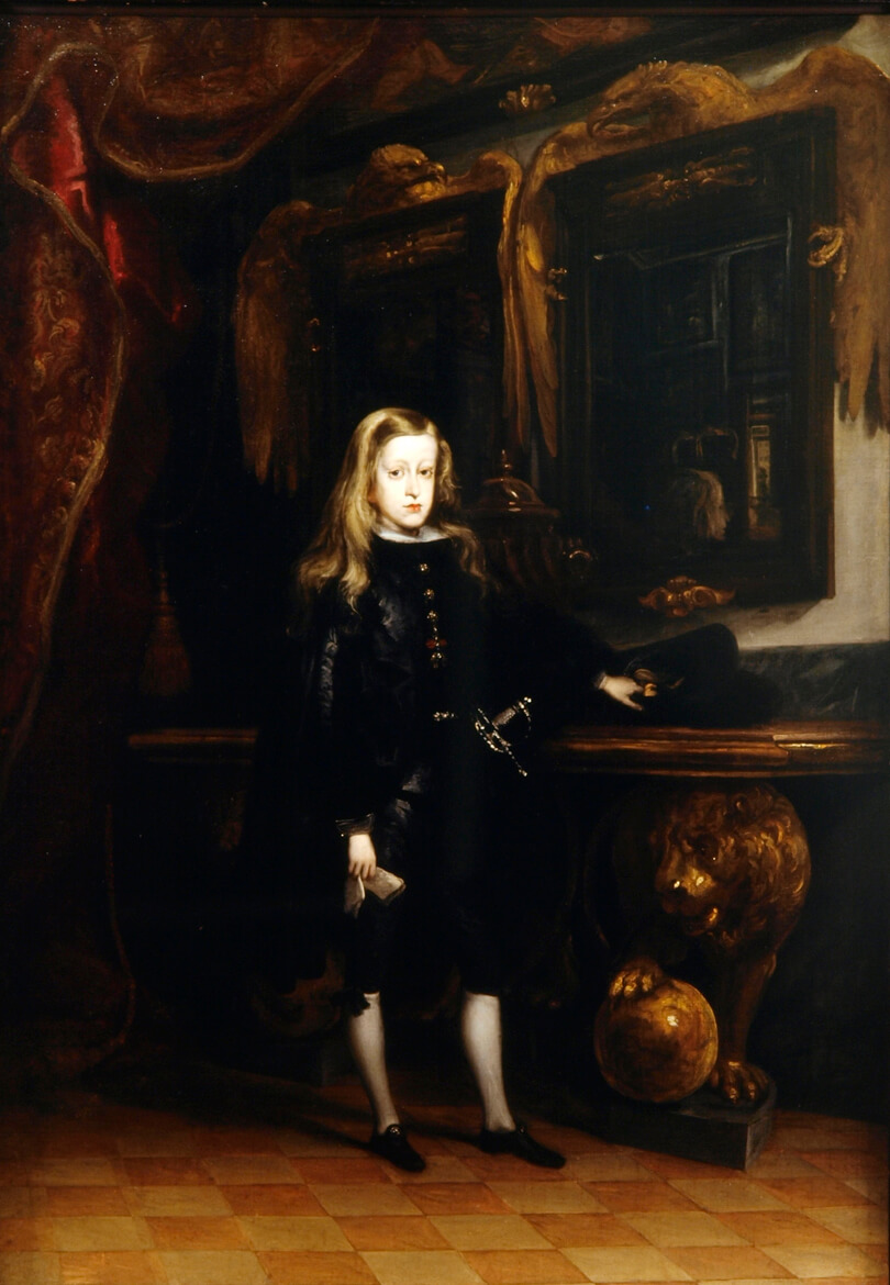 Portrait of King Charles II of Spain (1661-1700). The monarch was ten years old when he posed for this portrait and appears dressed entirely in black and with his left hand resting on a console held by lions and where is a black hat. This painting was acquired by the Museum of Fine Arts of Asturias in 1981. The painting was made in a room of the former Royal Alcázar of Madrid. These lions are preserved today forming part of the Throne Room in the Royal Palace of Madrid.